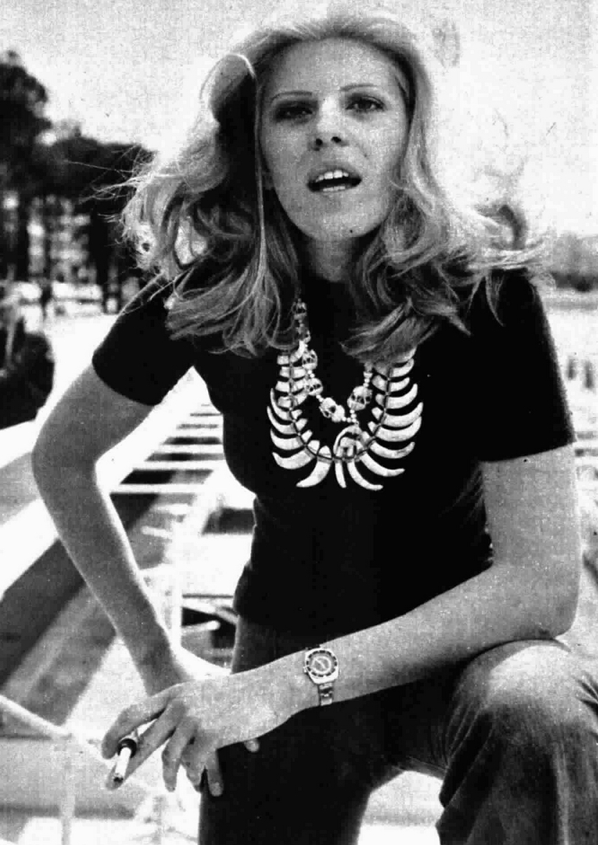 Italian actress Carla Tatò